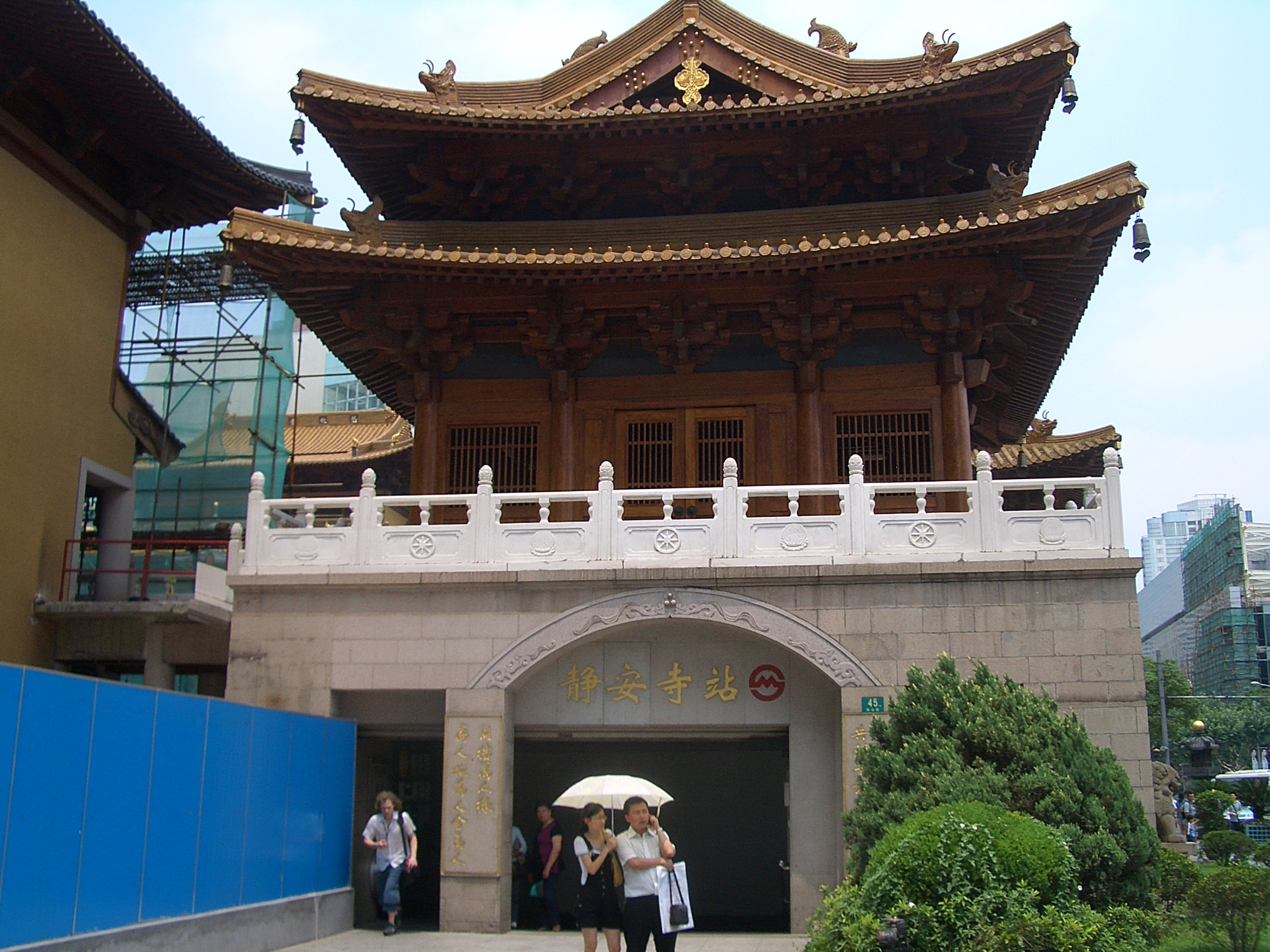 Jing'an Temple in Shanghai, conveniently provided with its very own subway station